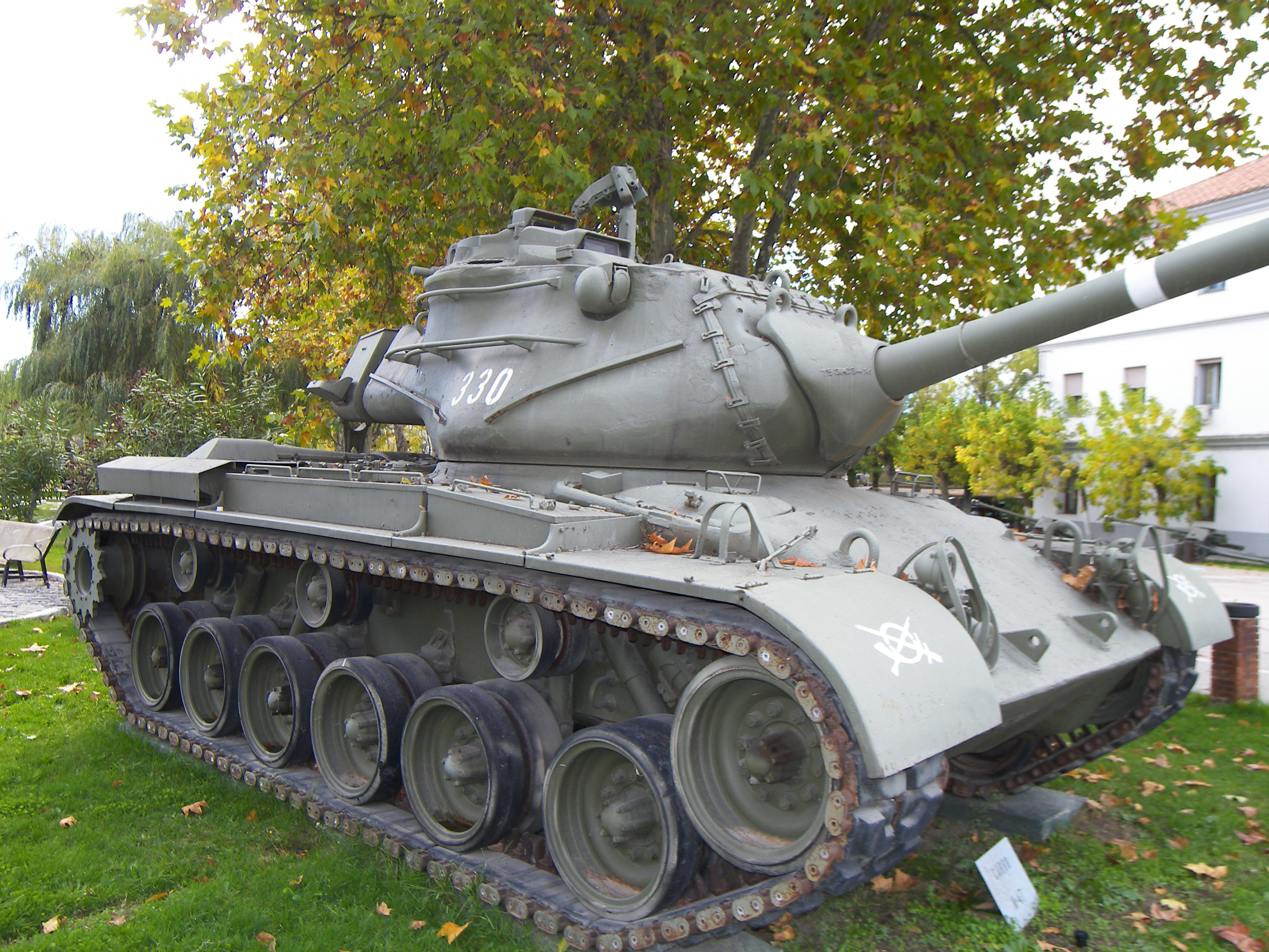 M47 Patton tank of the Spanish Army at the El Goloso Museum of Armored Vehicles.